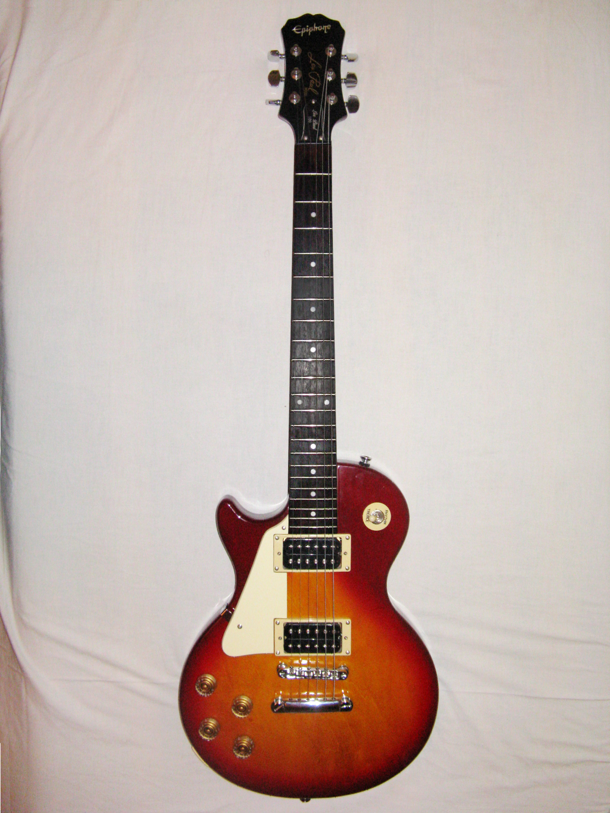 Epiphone Les Paul 100 electric guitar.